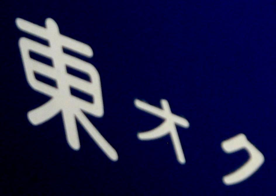 Symbol of Oku Rolling Stock Center, marked on its rolling stock